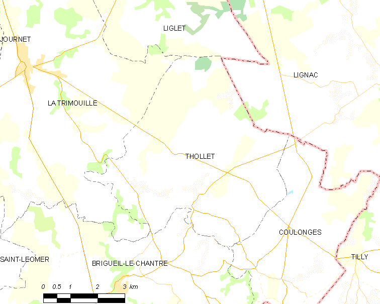 Map of French municipality Thollet